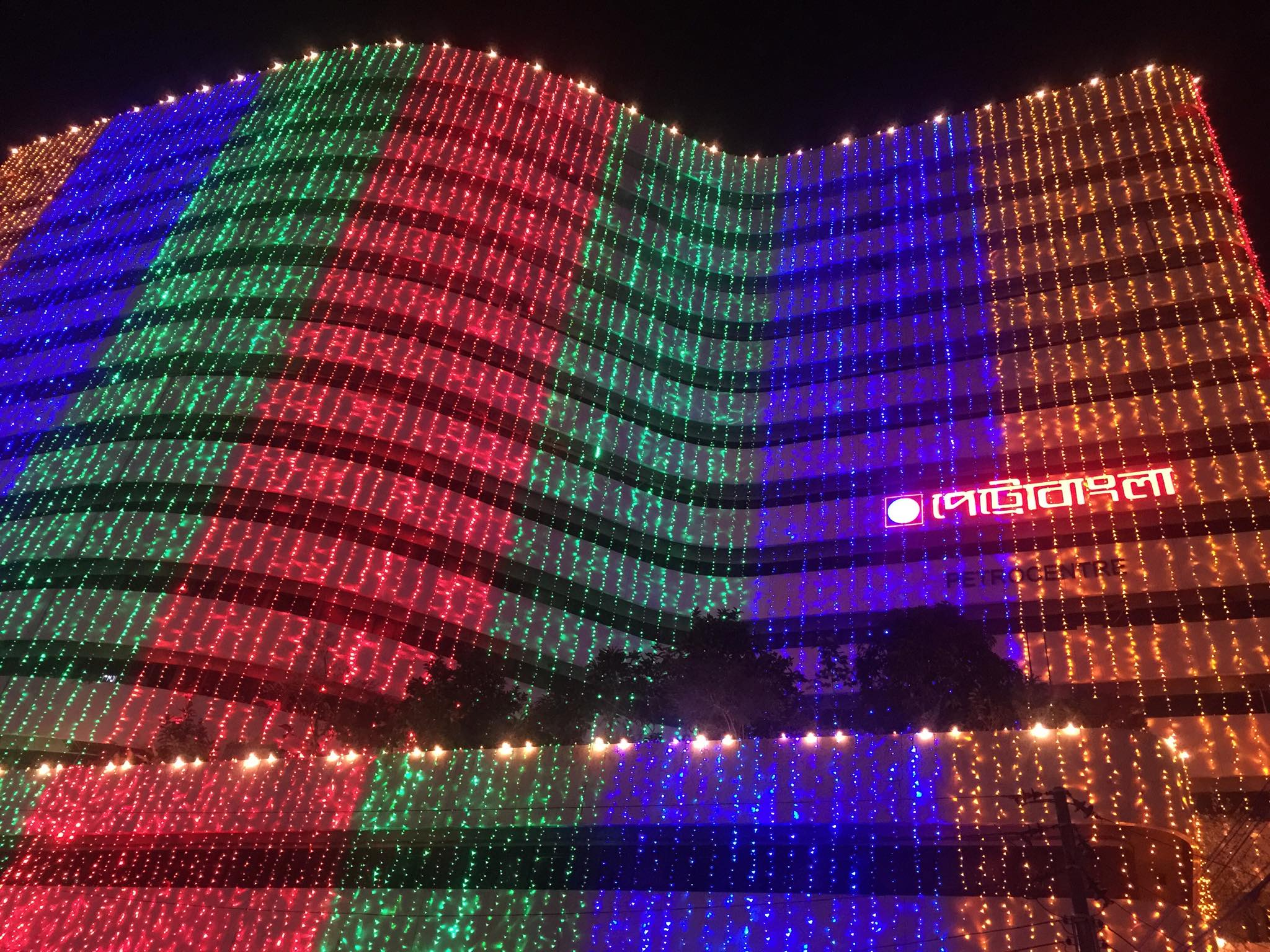 On December 16, Victory day celebration by Petrobangla, a government-owned national oil company of Bangladesh